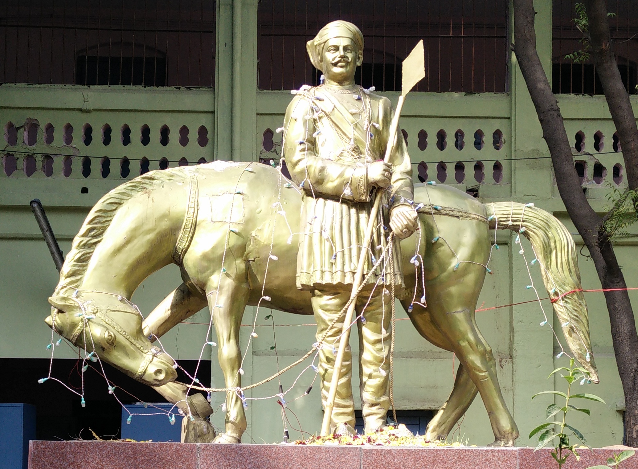 Sri Raja Rangayyapparao (SRR), Vijayawada